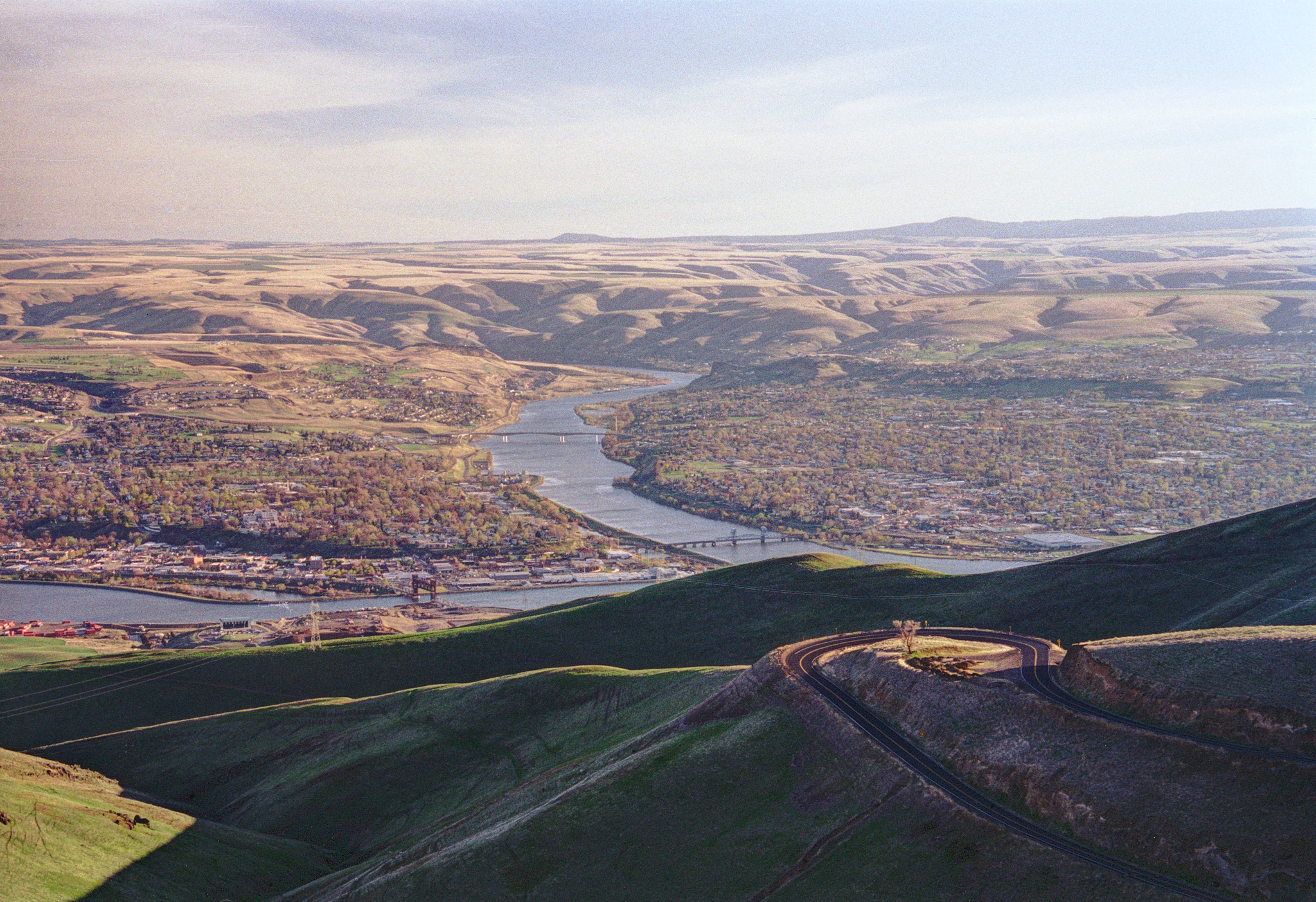 Lewiston, Idaho, Clarkston, Washington, Snake River, & Clearwater River seen from viewpoint on U.S. Route 95 north of Lewiston, Idaho, U.S.